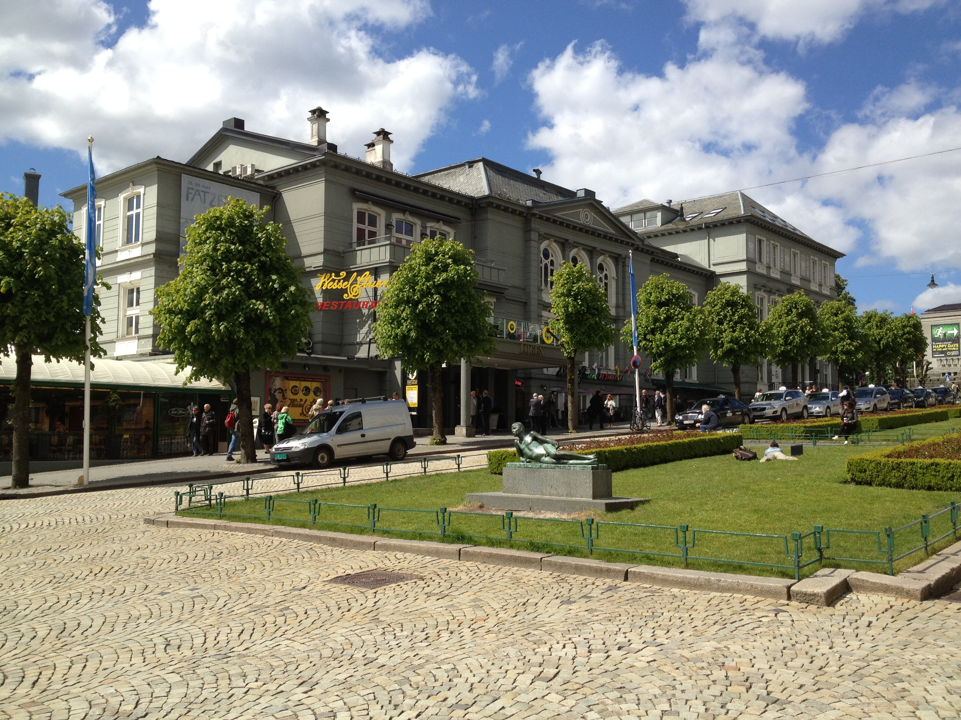 Logen Teater in Bergen, Norway